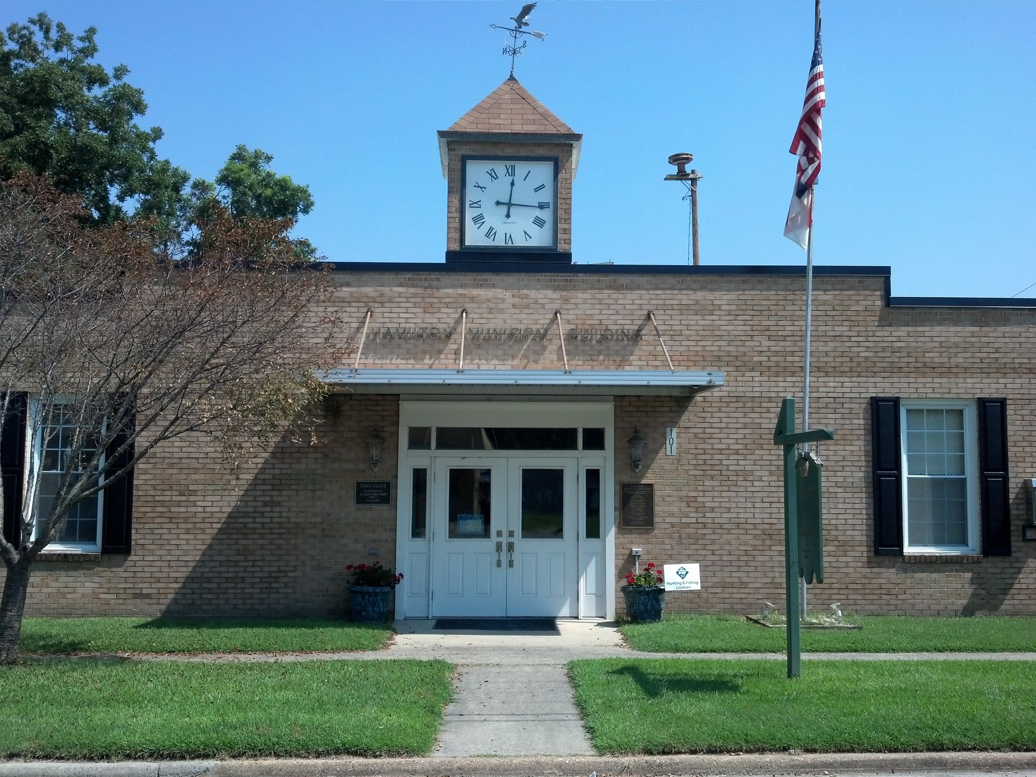 Town Hall building - Hamilton, NC